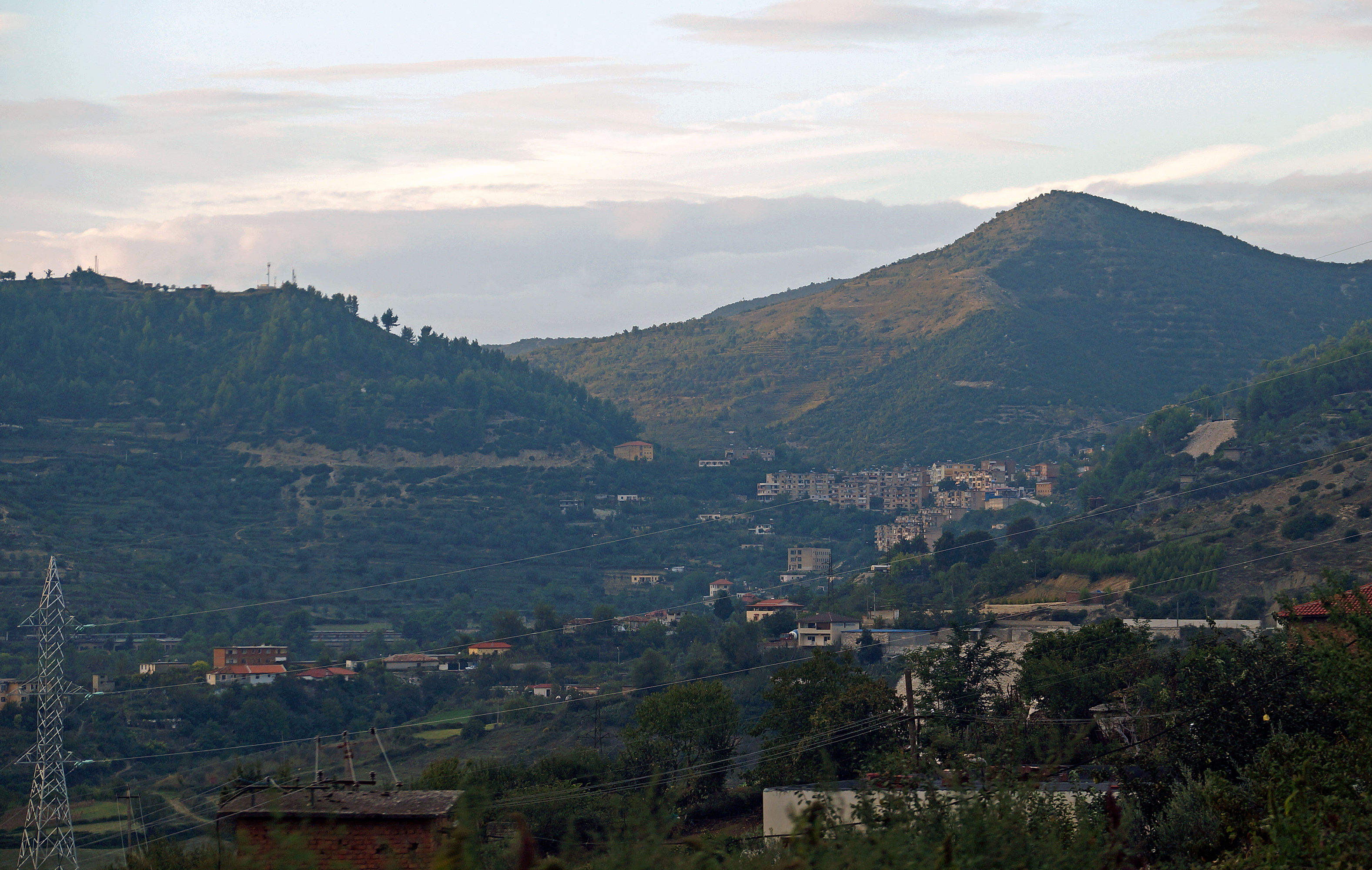 Poliçan, Skrapar, Southern Albania